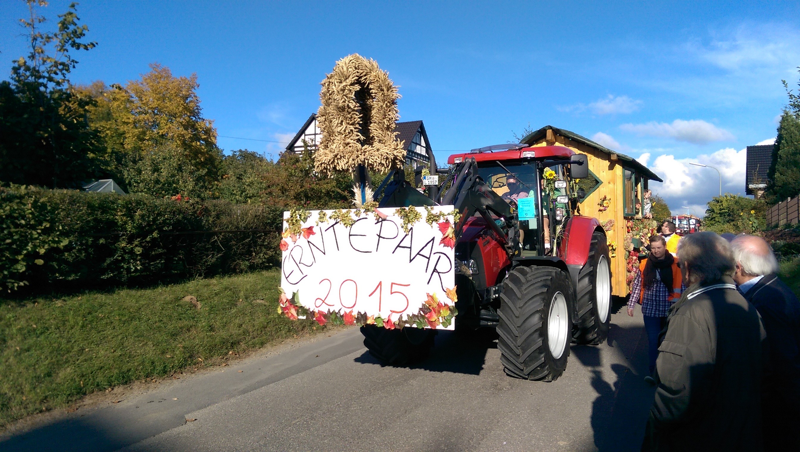 Tradtitional customs in Hohkeppel, Germany